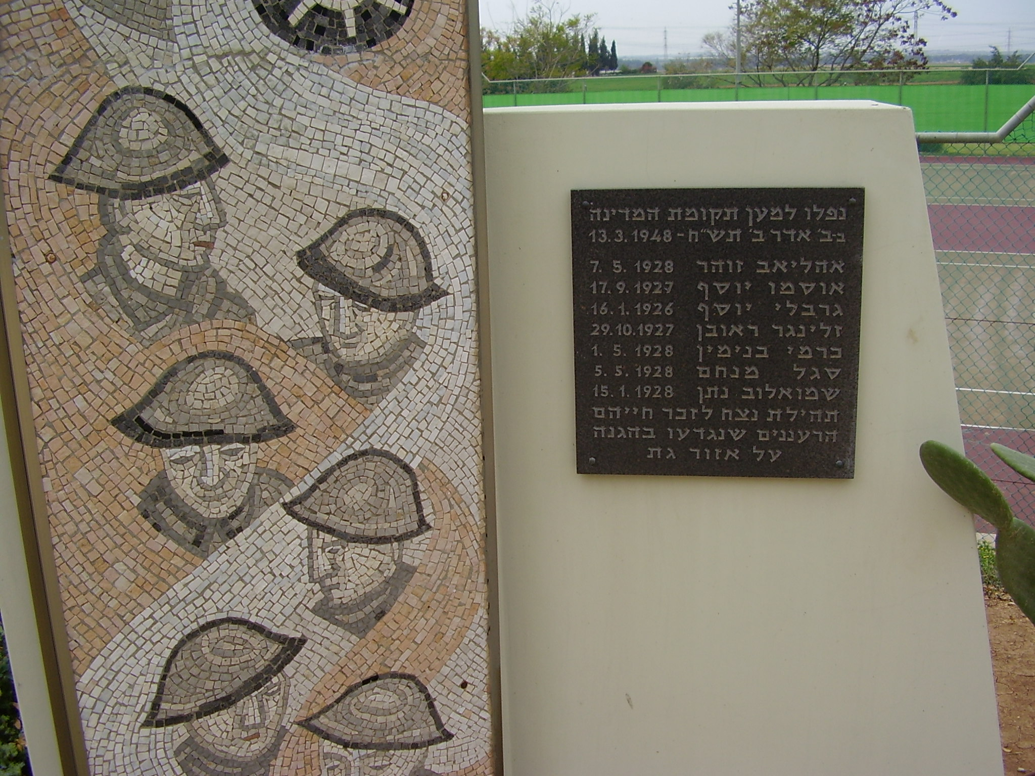 war memorial from the independence war, in kibbutz gat